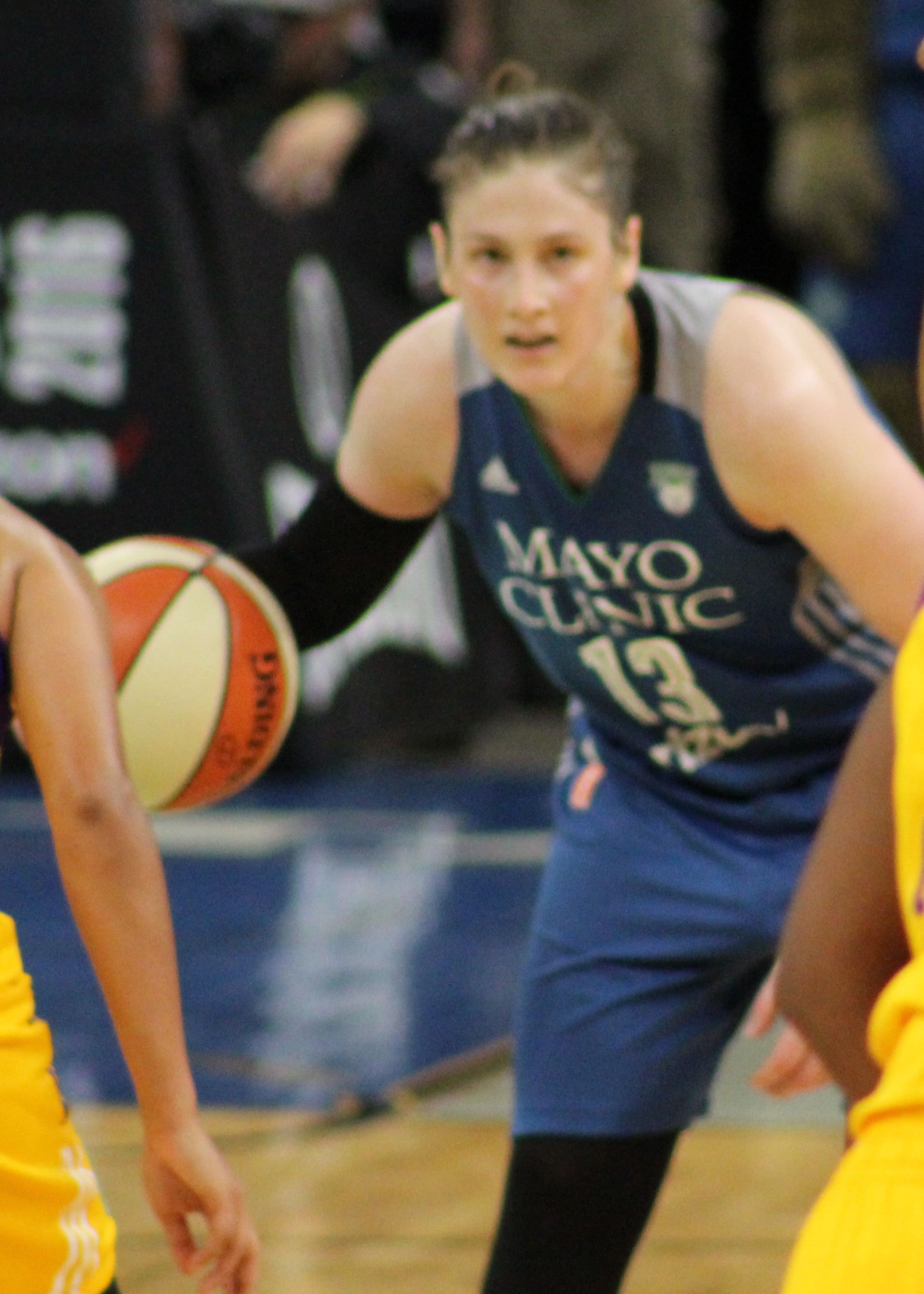 Lindsay Whalen of the Minnesota Lynx